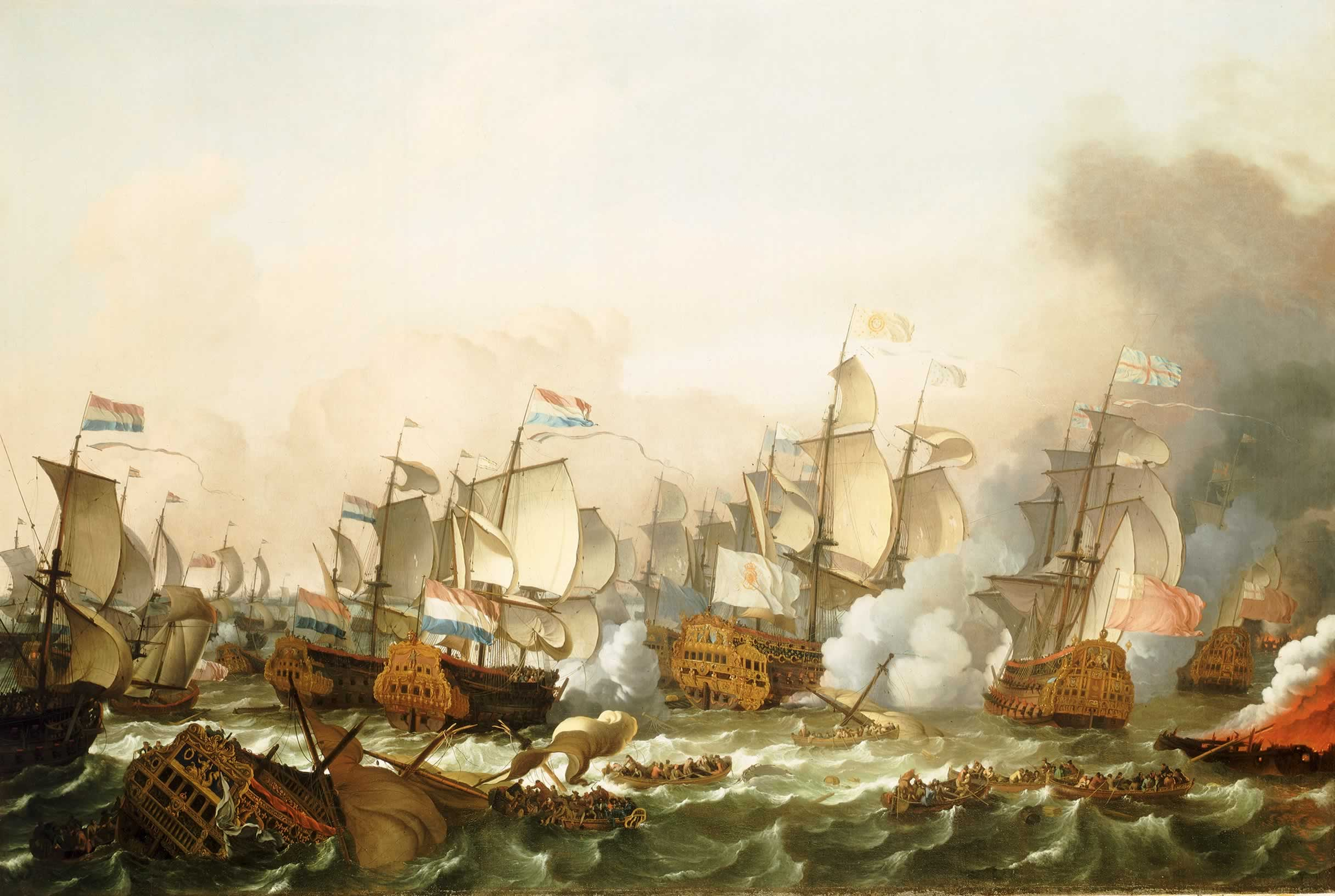 Early in 1692, James II was at Cherbourg, preparing to re-invade England with French help. On 17 May the French fleet sailed from Brest and were attacked by a superior Anglo-Dutch force under Admiral Russell, off Cape Barfleur. The French escaped but a few days later the allies burnt three of their ships including their flagship the 'Soleil Royal', 104 guns, in Cherbourg Bay. On 23-24 May, James II saw 12 more French ships and most of his transports burnt in the Bay of La Hogue. This ended all real hope of regaining his throne. The French commander off Barfleur was the Comte de Tourville. With a force half the size of the Anglo-Dutch fleet and hampered by fog, put up a brave fight. The focal point in the painting is de Tourville's flagship 'Soleil Royal', shown in the middle distance to the left of centre and in starboard-quarter view, in close action with the allied fleet flagship 'Britannia', on her starboard side. She is running before the wind, as are the fleets in general. This interpretation ignores the presence of fog and falsely indicates that the visibility is good. Astern of the 'Soleil Royal', firing her chase guns, is the flagship of Vice-Admiral-General van Callenburgh, and close on her port side a Dutch ship is also in chase. Beyond them and behind are other Dutch ships with, in the middle, an English smack-rigged royal yacht beating across them on the starboard tack. In the left foreground is a sinking French ship and to the right a number of boats and barges. A burnt-out wreck smoulders on the extreme right foreground.